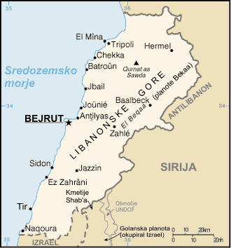 Map of Lebanon from CIA World Factbook.